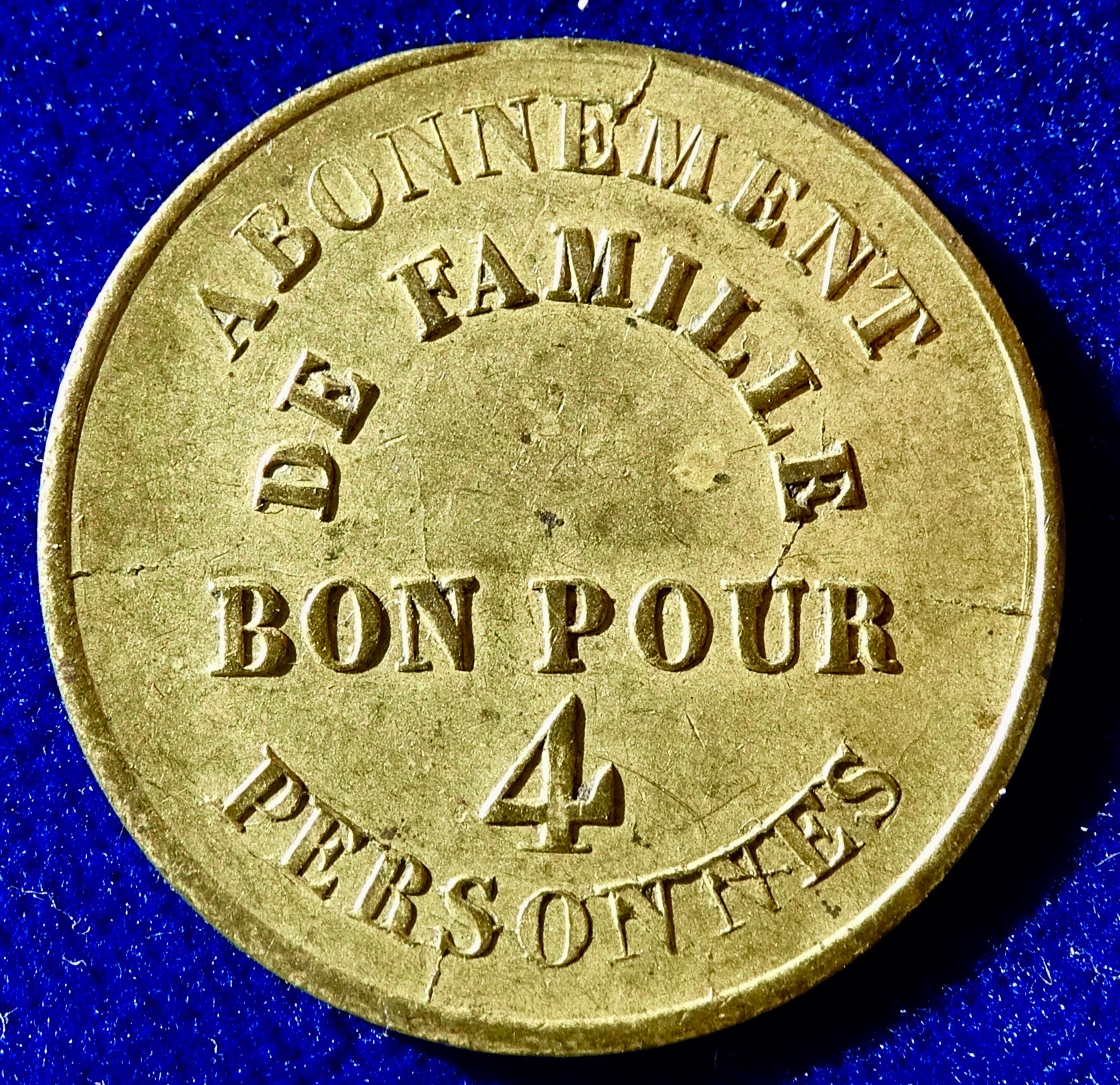 Paris, France, Admission Jeton Token Théâtre Comte, Passage Choiseul, ND (1827 - 1846). Bronze, d. = 27 mm. Theatre admission coin for a family of 4. Louis Apollinaire Christien Emmanuel Comte, Parisian magician, 1778 Geneva, Switzerland - 1859 Rueil-Malmaison, France 4 lines: "THEATRE * COMTE * A 6 HS. 1/2 PASSAGE CHOISEUL"/ 5 lines: "ABONNEMENT DE FAMILLE BON POUR 4 PERSONNES". Condition: Nice VERY FINE+.